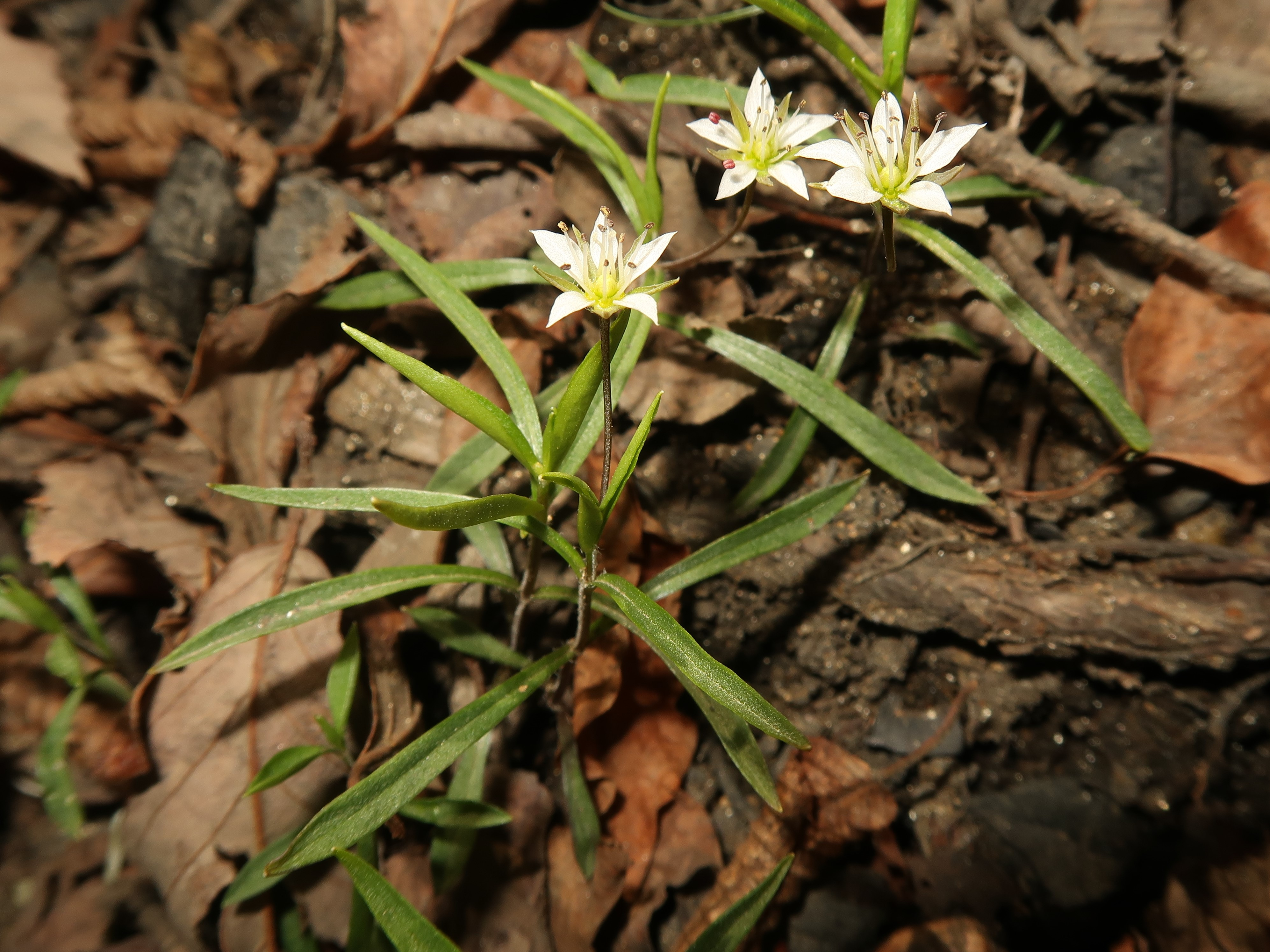 Pseudostellaria heterantha var. linearifolia, Mount Tsukuba-san, Ibaraki pref., Japan